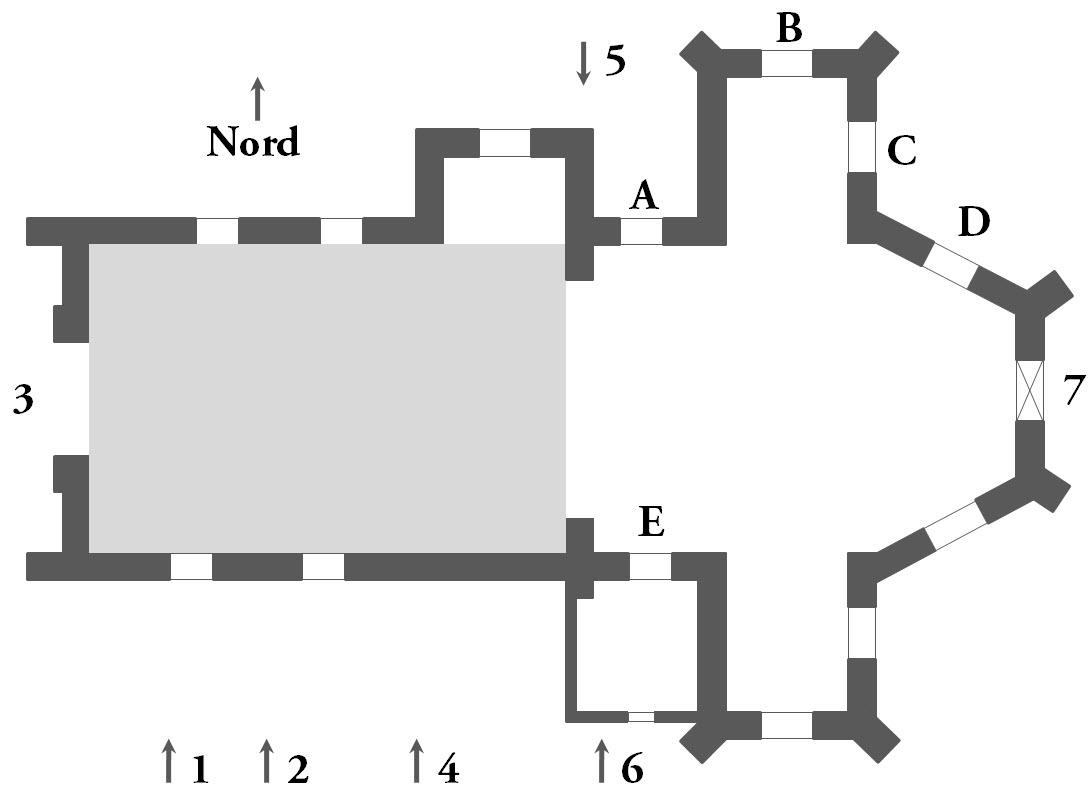 Map of LA BRUERE SUR LOIR church (Sarthe, France)